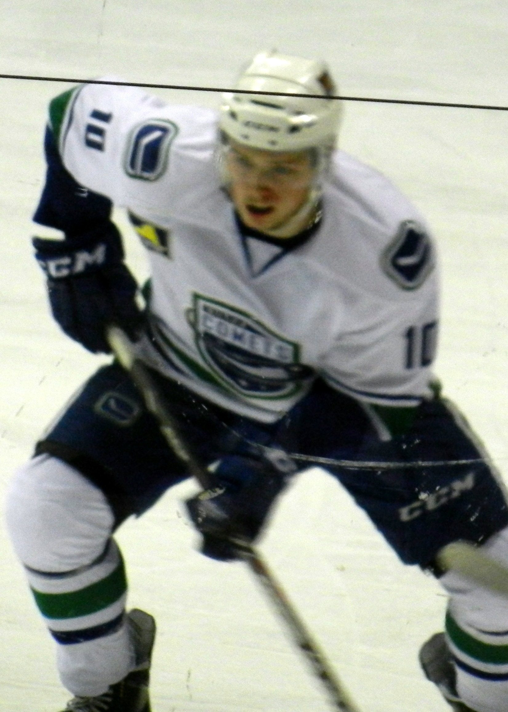 Brendan Gaunce playing for the Utica Comets